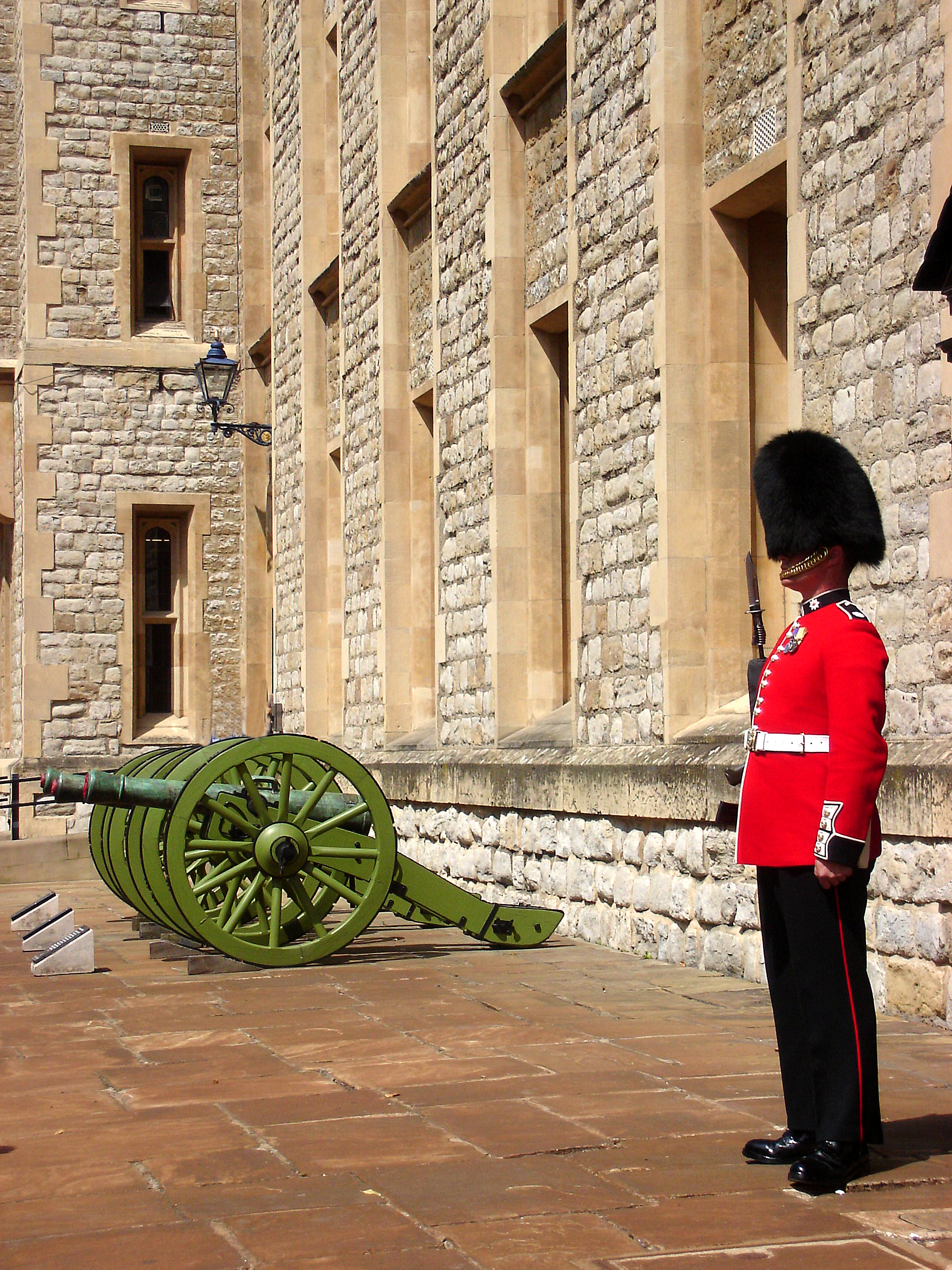 A Coldstream Guards sentry outside the Jewel House in the Tower of London.